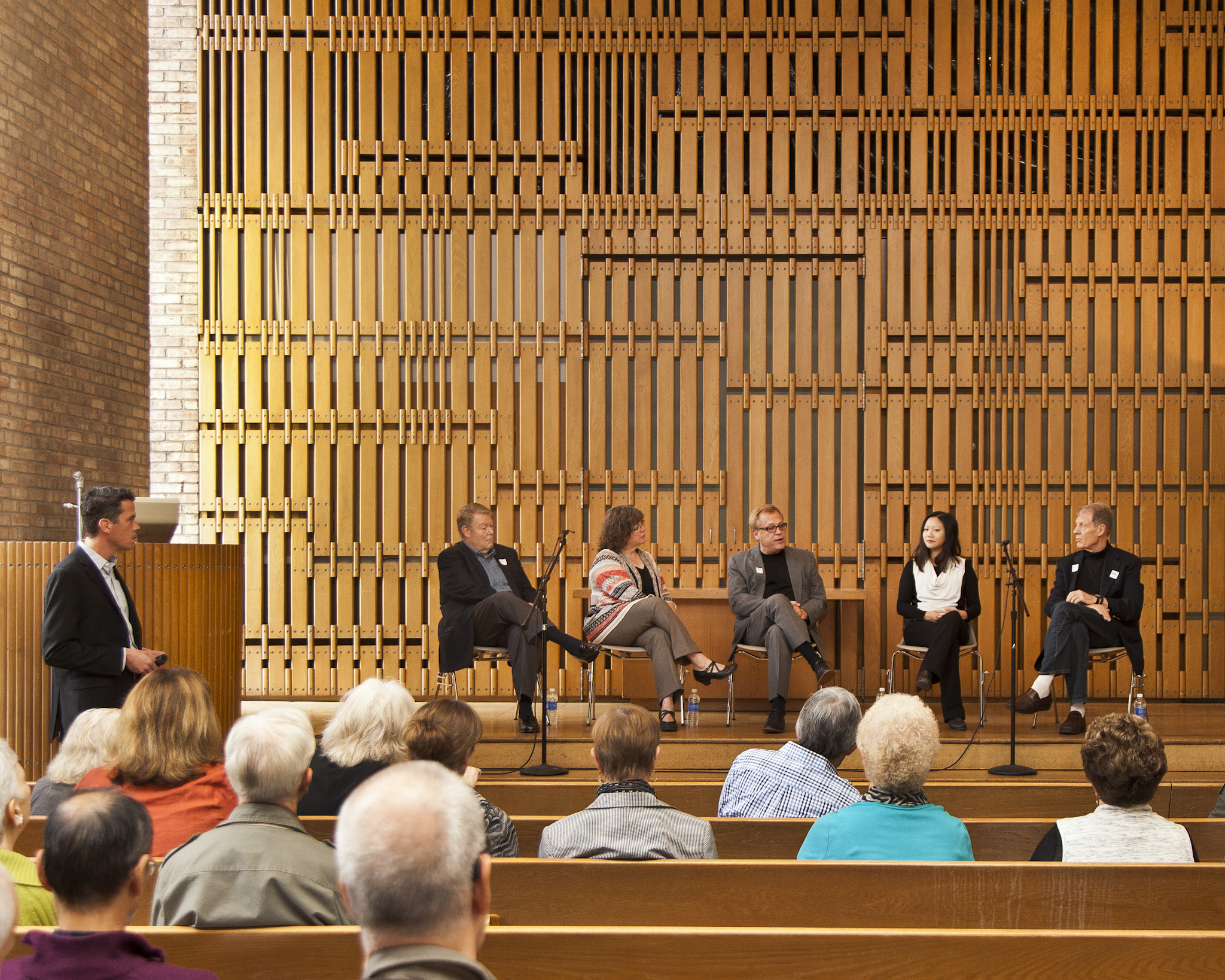 Presentations at First Christian Church